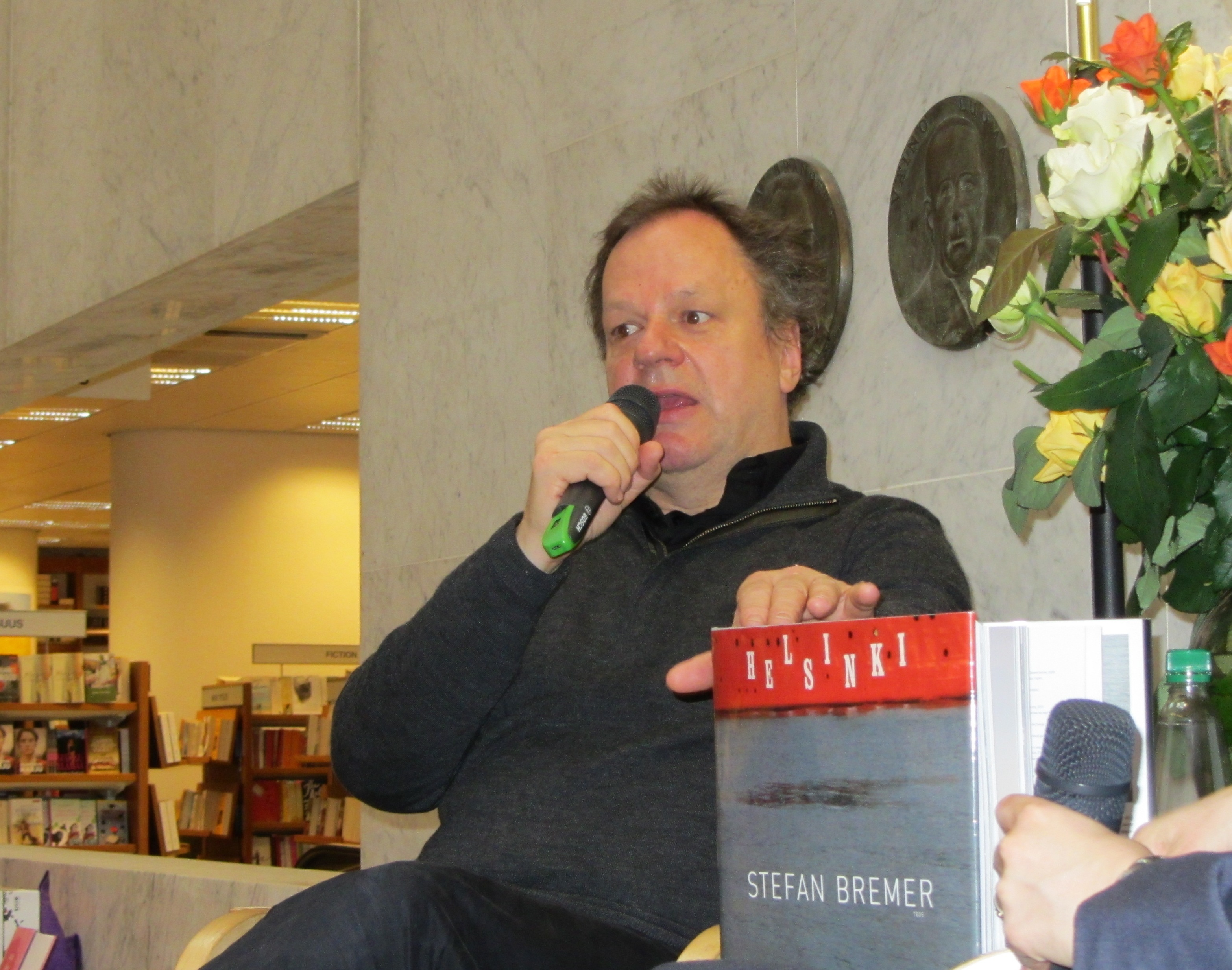 Finnish photographer Stefan Bremer på Världsbokdagen i Helsingfors 2012